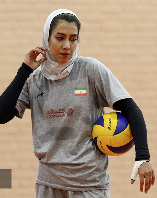 Iranian national volleyball team - 1398